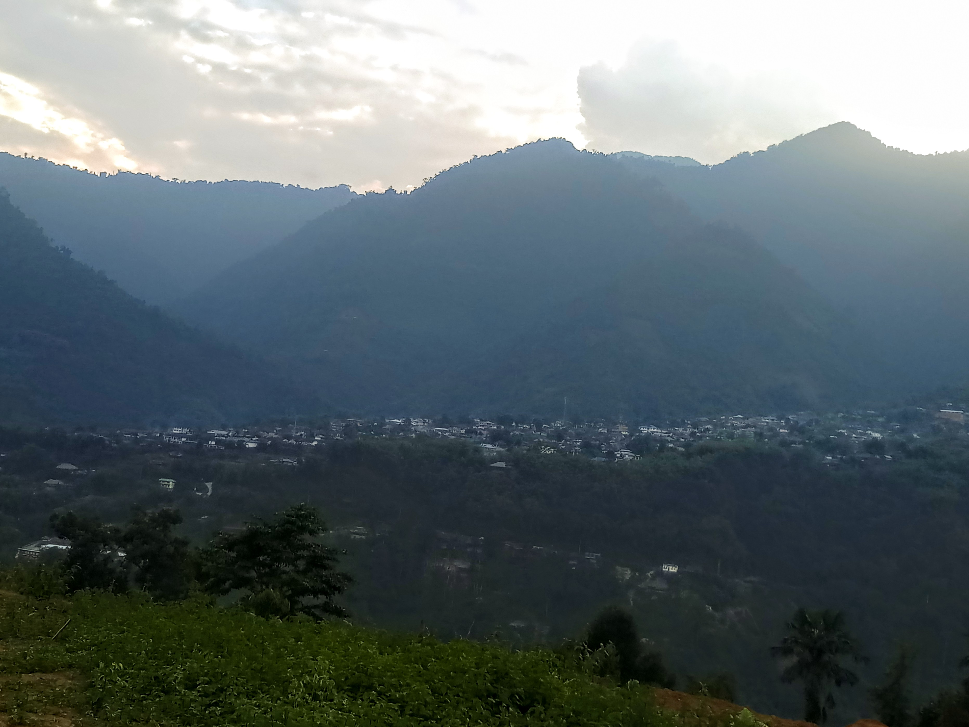 This photo has been taken in the country: India